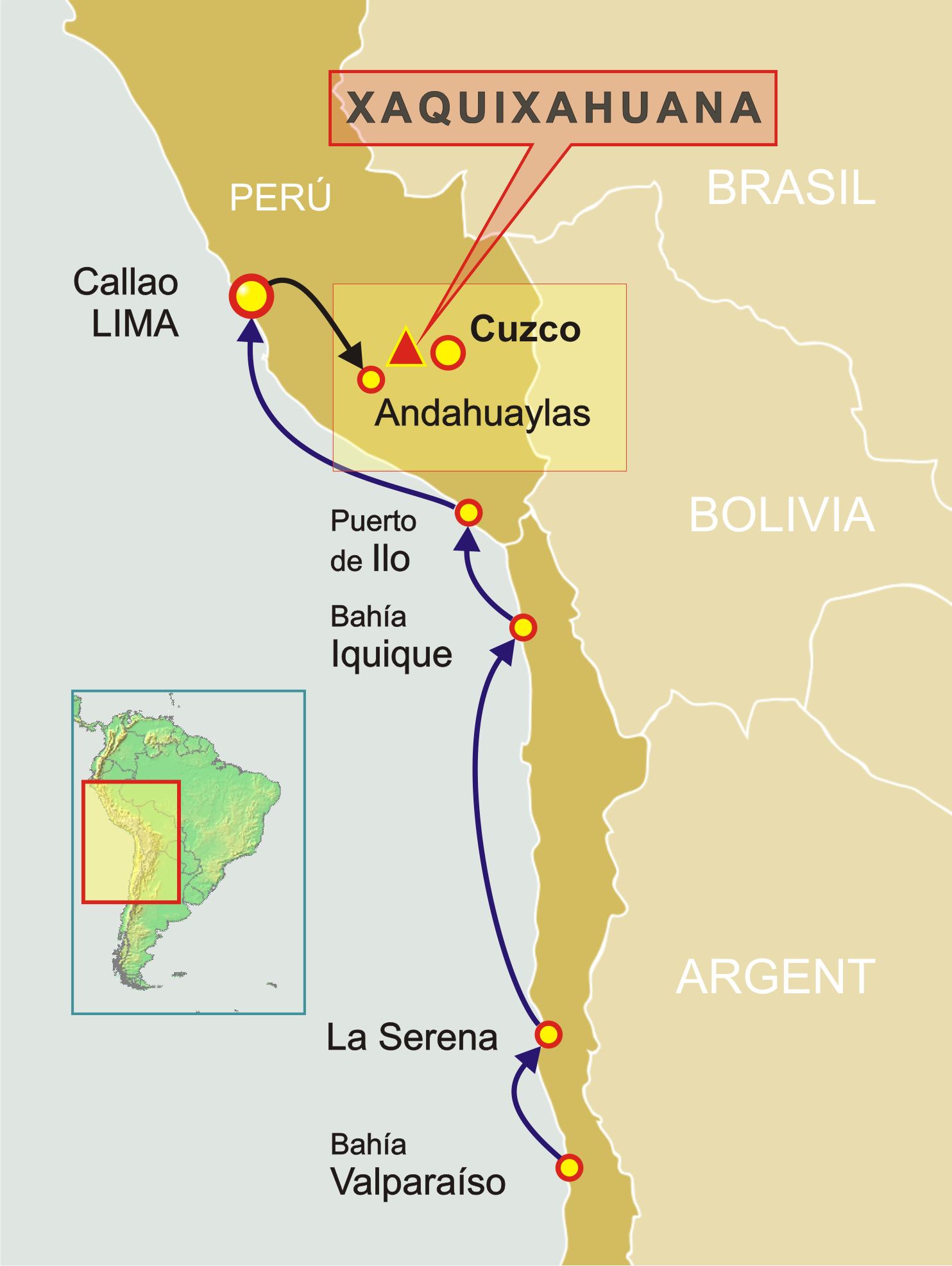 Valdivia comes back to the Viceroyalty of Peru.